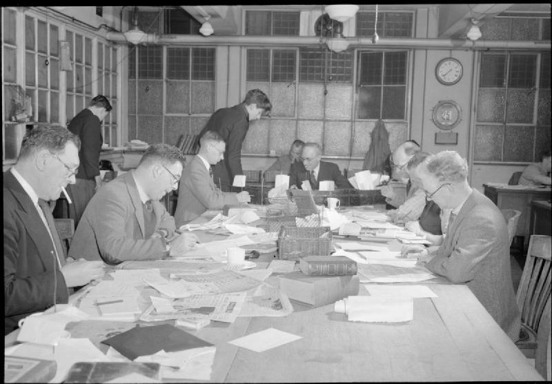 The Makings of a Modern Newspaper- the Production of 'the Daily Mail' in Wartime, London, UK, 1944 A busy scene in the sub-editor's room at the offices of the Daily Mail newspaper. In the centre background can be seen Mr Taylor, the Copytaster, who reads through stories (or copy) given to him and decides on whether they are suitable stories, and hands them on to the chief sub-editor, suggesting a particular treatment of the topic. The time is twenty to eight in the evening, as indicated by the clock on the wall in the background.